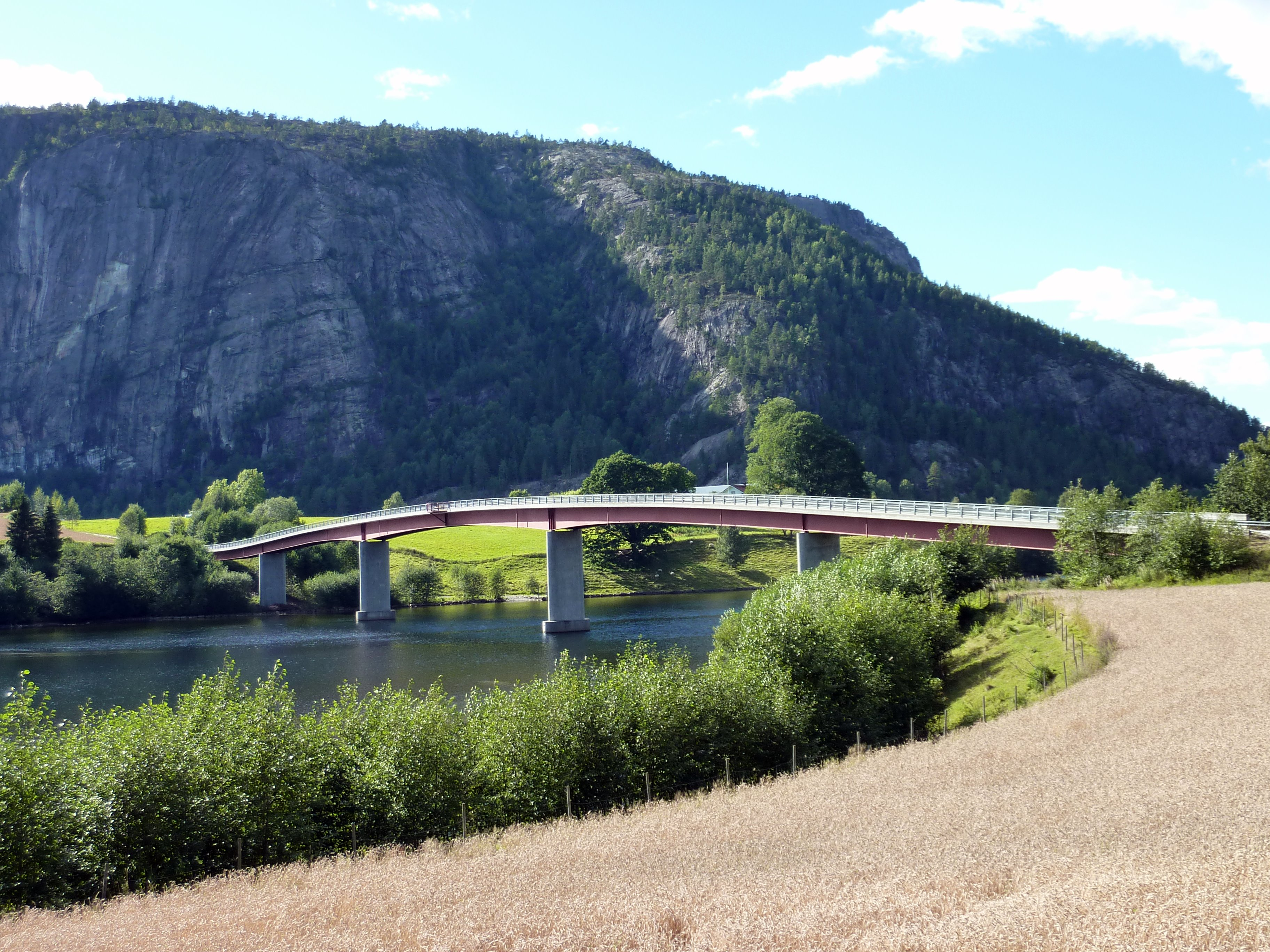 The bridge in Fjågesund that crosses the Telemark Canal.